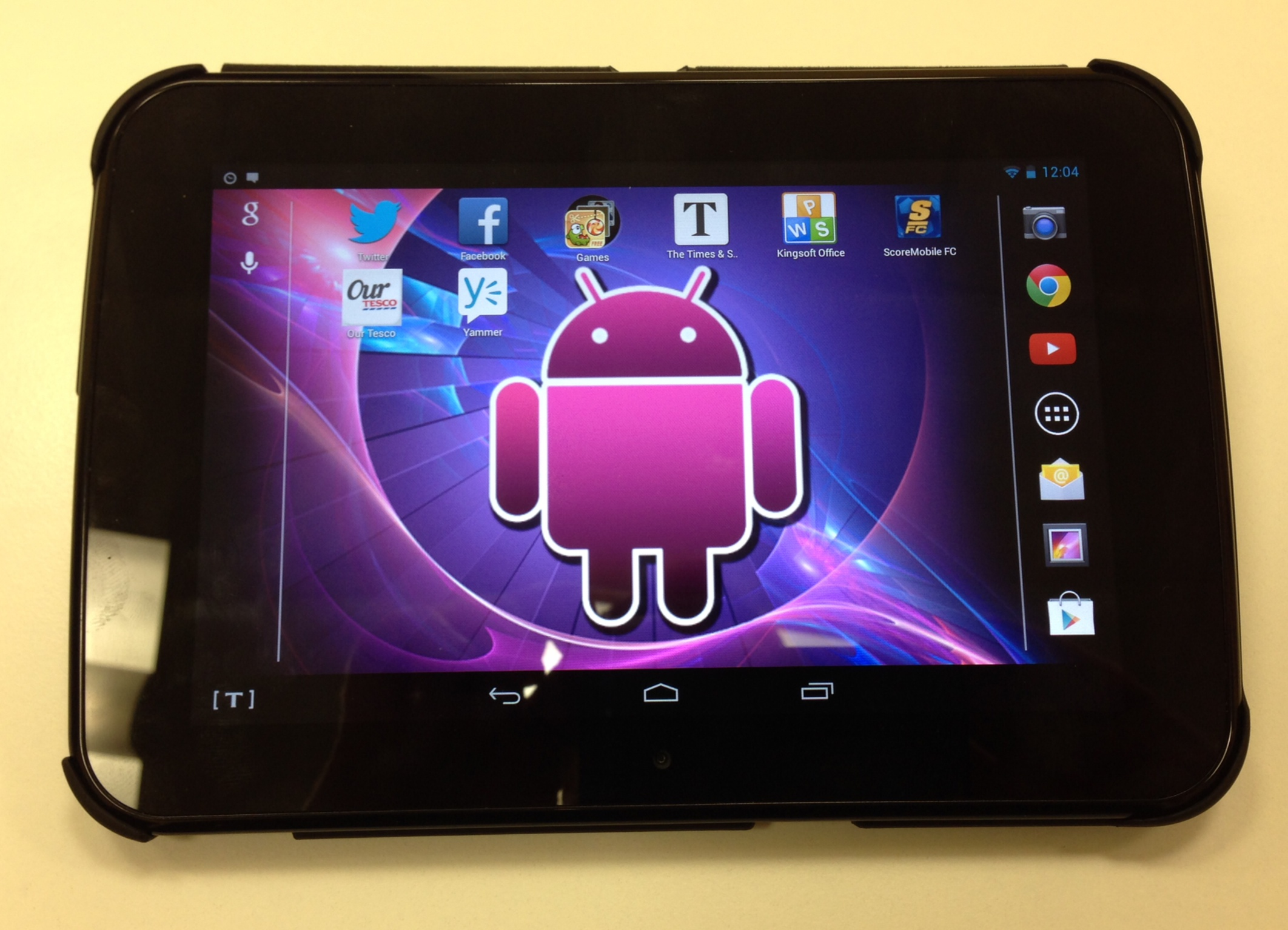 Tesco Hudl tablet computer, complete with case.